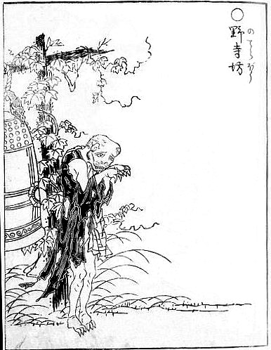 Noderabō (野寺坊) from the Gazu Hyakki Yakō